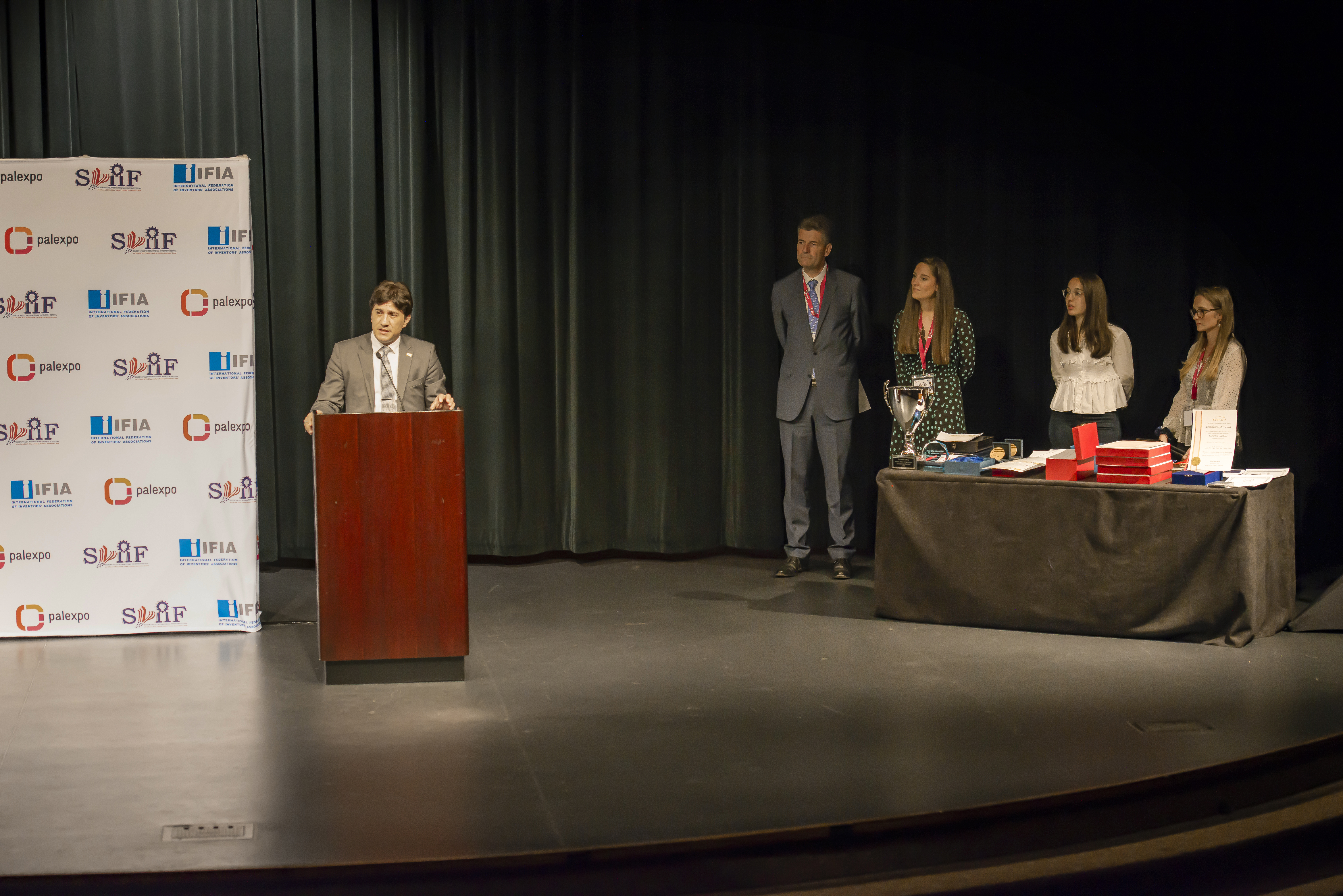 SVIIF